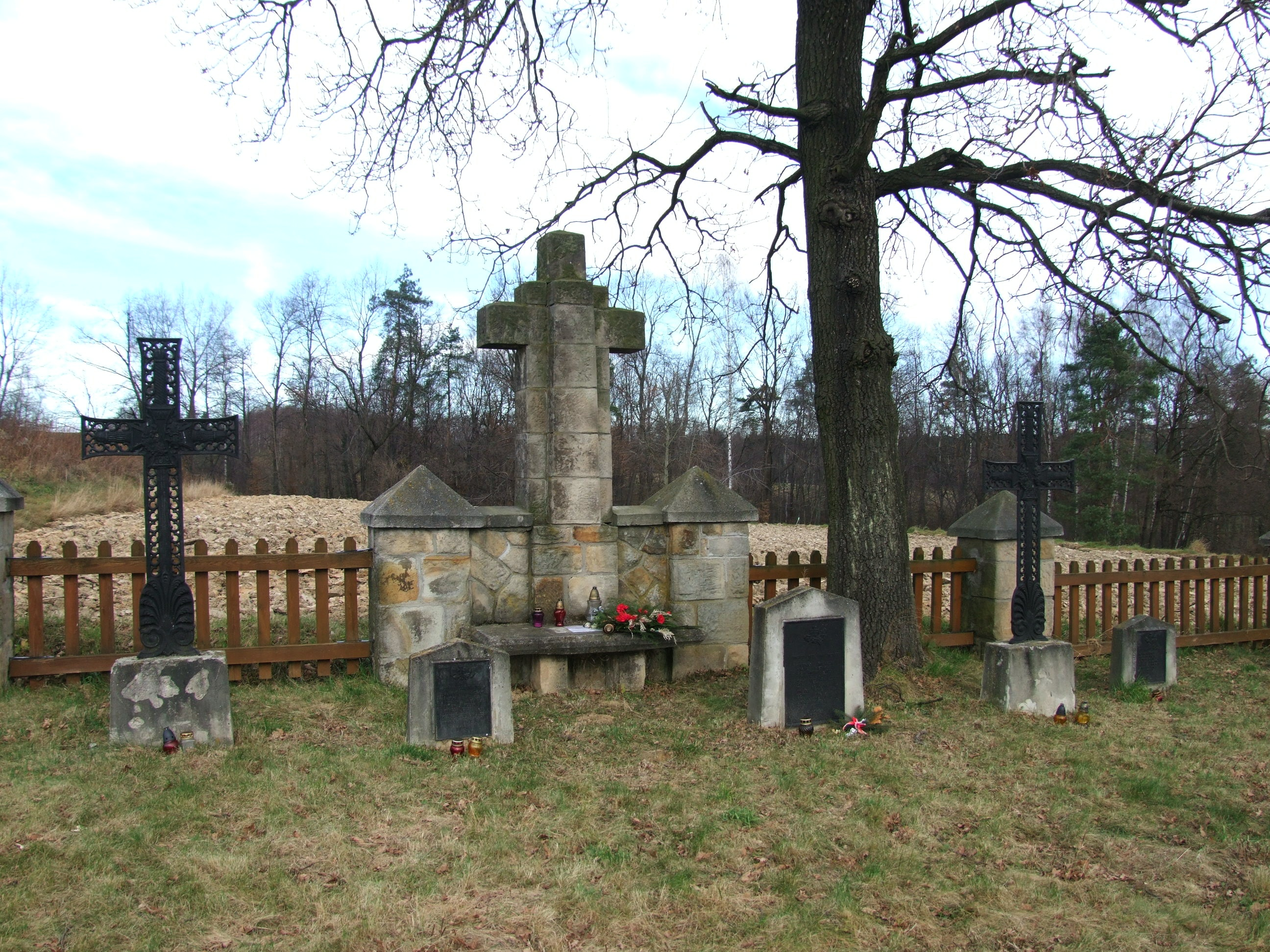 World War I Cemetery nr 307 in Łąkta Dolna